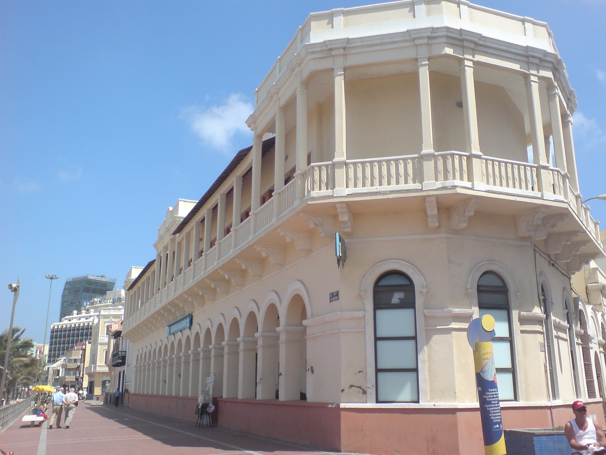 San Jose Clinic of Las Palmas de Gran Canaria. Constructed in 1900. Canary Islands, Spain.